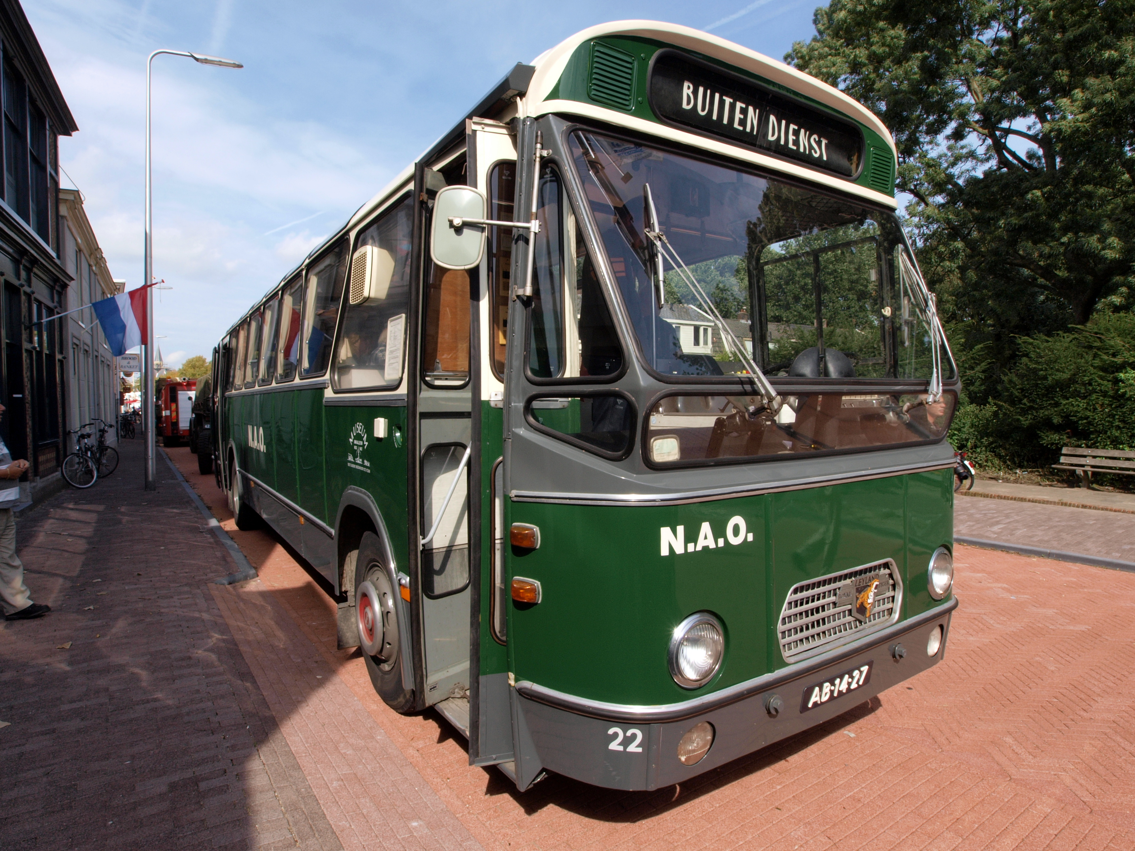 1966 Leyland Royal Tiger Worldmaster.